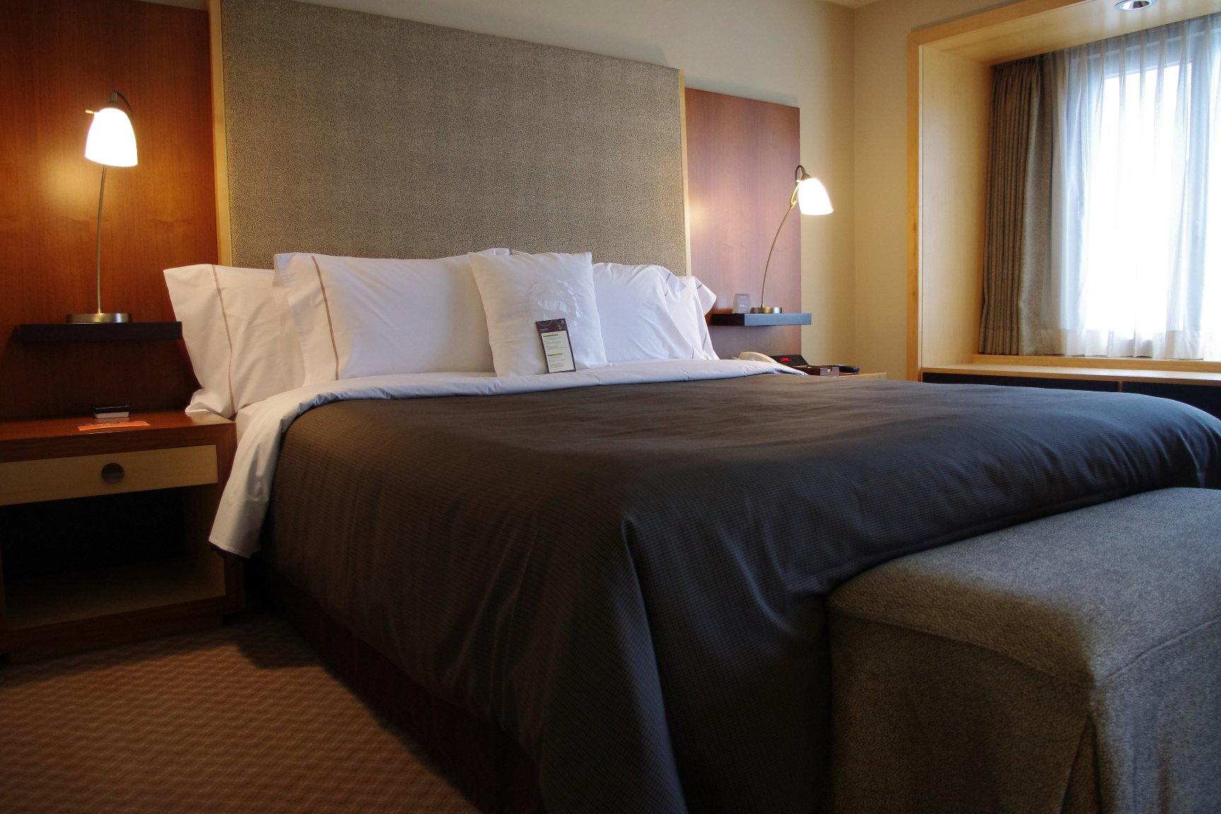 Sheraton Grande Walkerhill Seoul